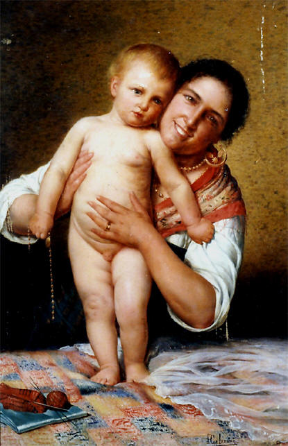 Il mio gioiello, Pasquale Celommi